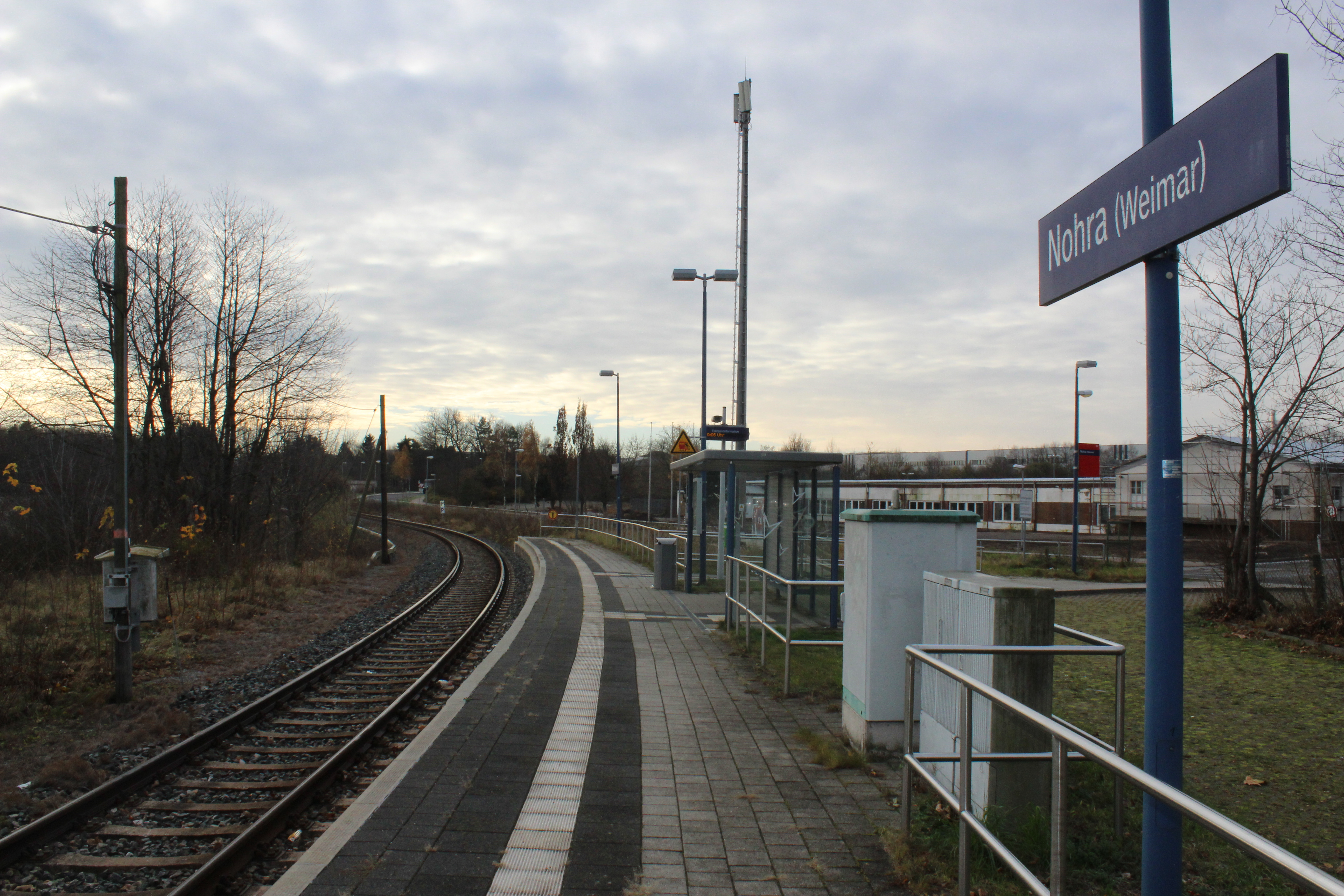 train station Nohra (b Weimar), platform